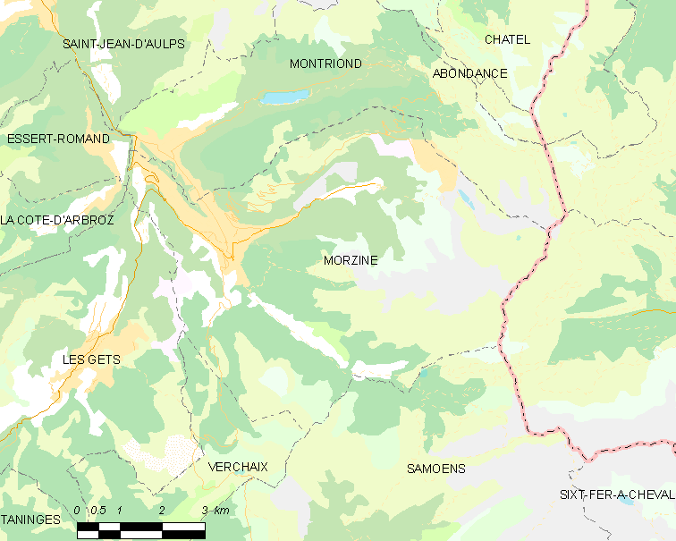 Map of French municipality Morzine